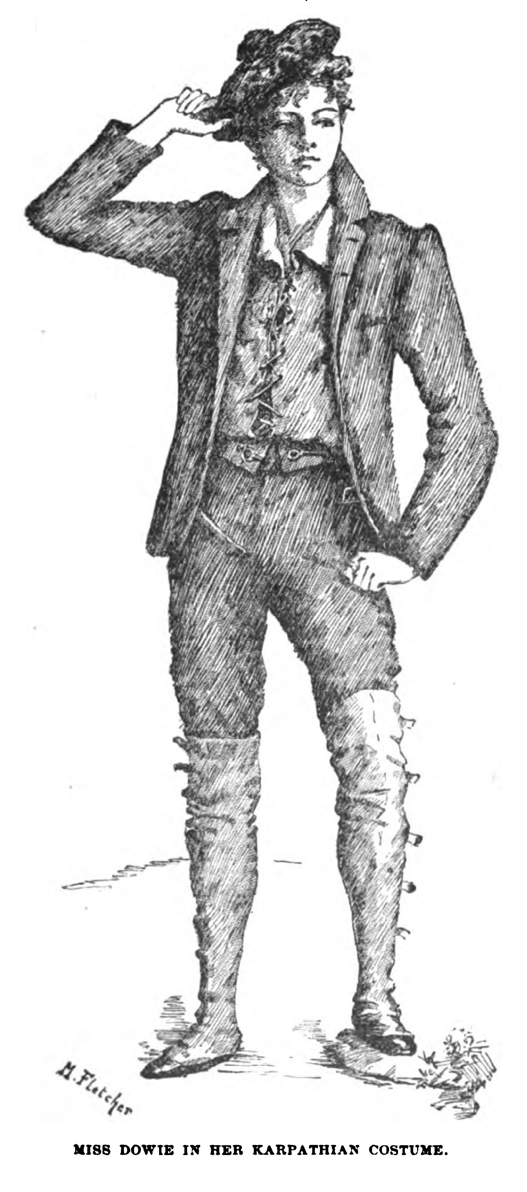 Ménie Muriel Dowie (15 July 1867 – 25 March 1945) was a British writer.